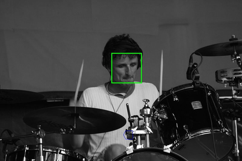 The face of the man was detected by special software [1].